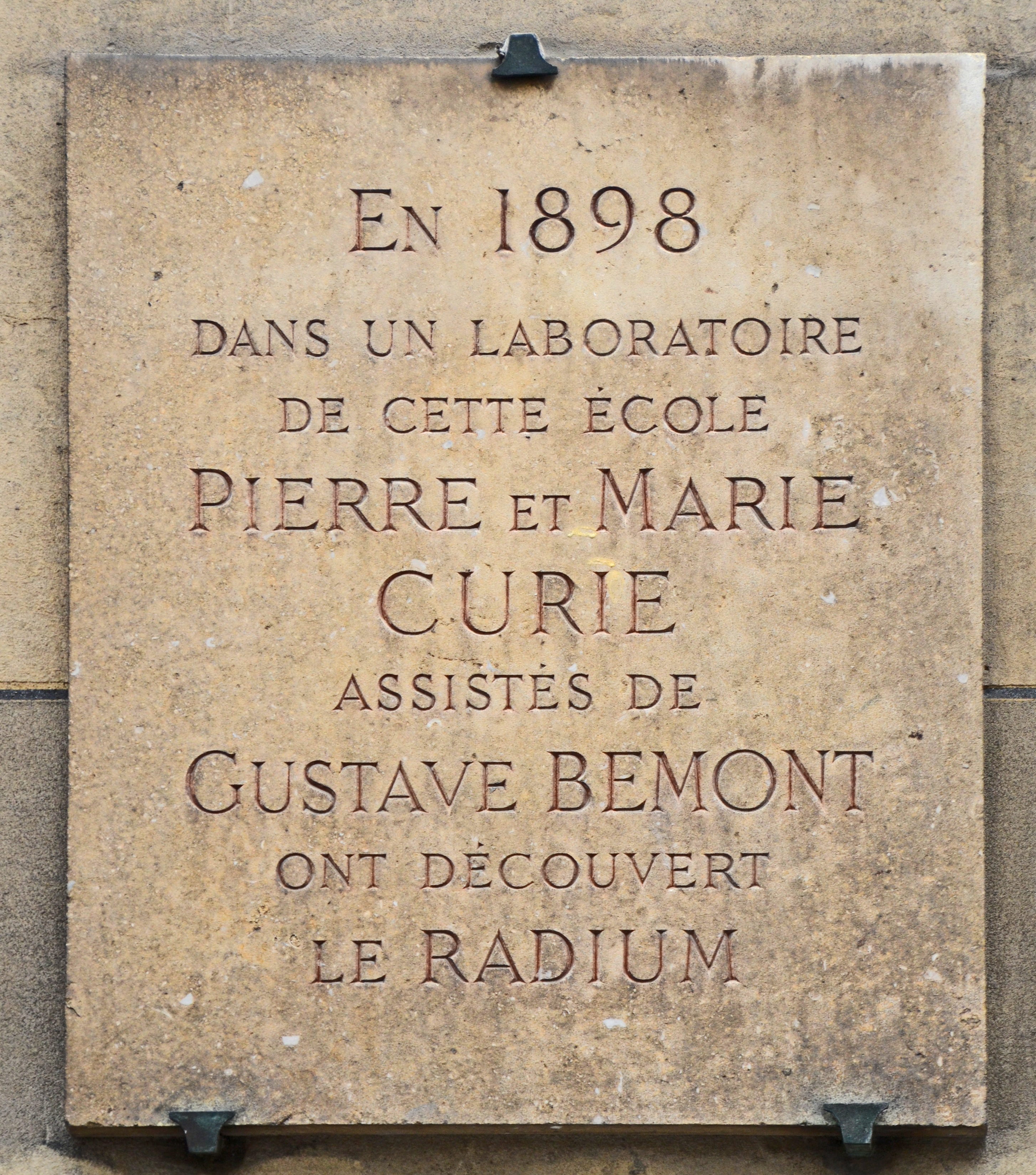 Read about Marie Curie here: Read about Pierre Curie here: Read about Gustave Bemont here